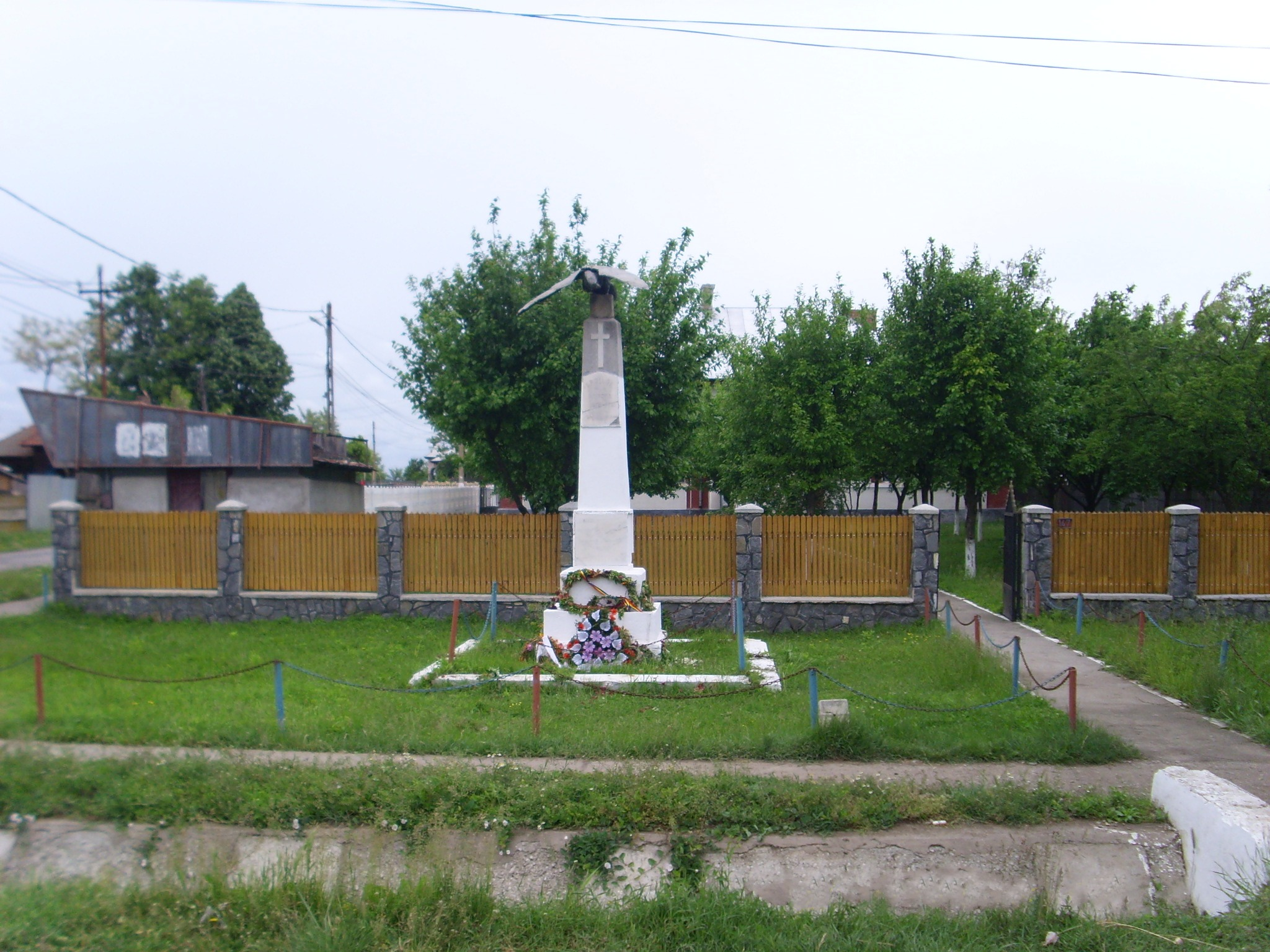 scoala fulga de jos